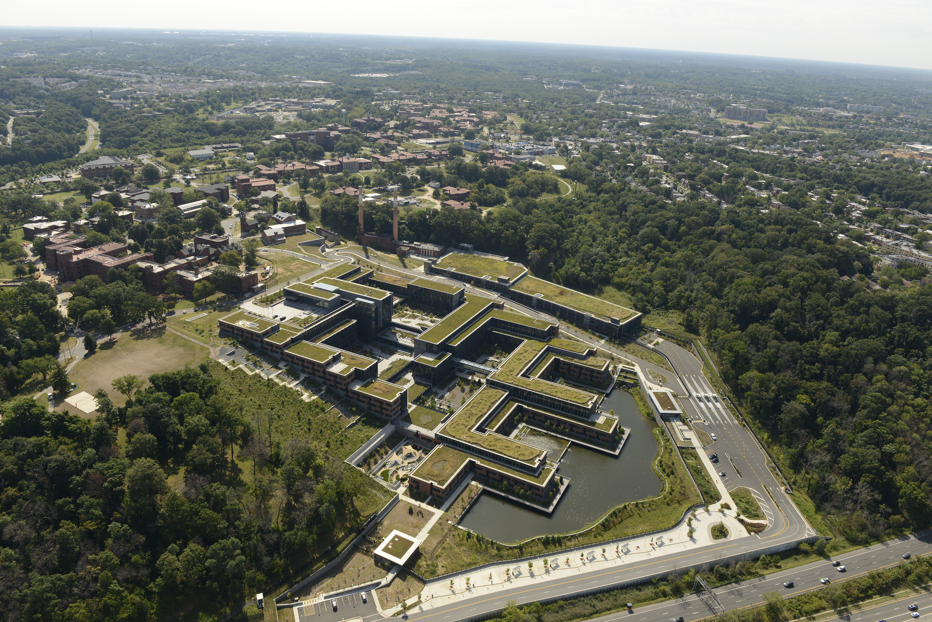 The Douglas A. Munro Coast Guard Headquarters Building located in southeast Washington is shown from the aerial perspective of a Coast Guard MH-65 helicopter Aug. 21, 2015. A ribbon cutting ceremony was held July 29, 2013, which completed the first stage of the Department of Homeland Security consolidation project on the St. Elizabeths west campus.